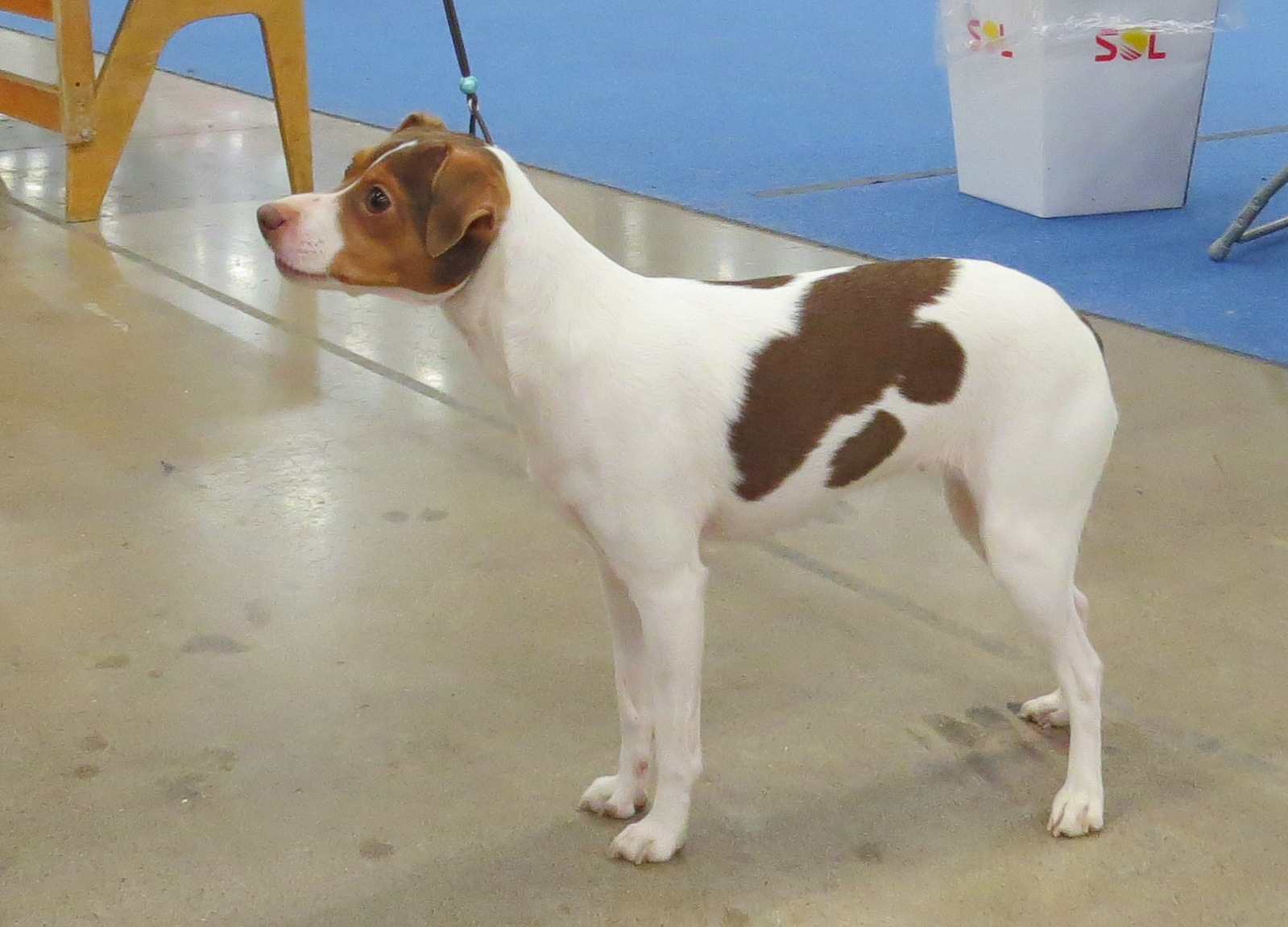 Koira 2013 Helsinki 13-15/12/2013